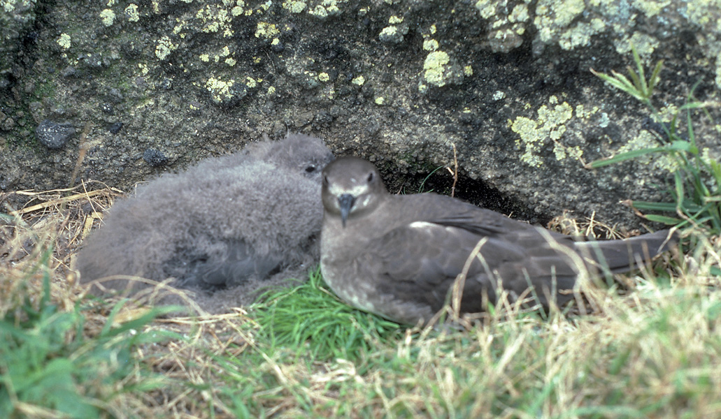 Kermadec Petrel (Pterodroma neglecta), chick and parent. Due to predation by cats and rats on Raoul Island, Kermadec petrels were perhaps only to be found on the offshore islets at the time of this image (1975/1976).This chick on Meyer Island is losing its down.